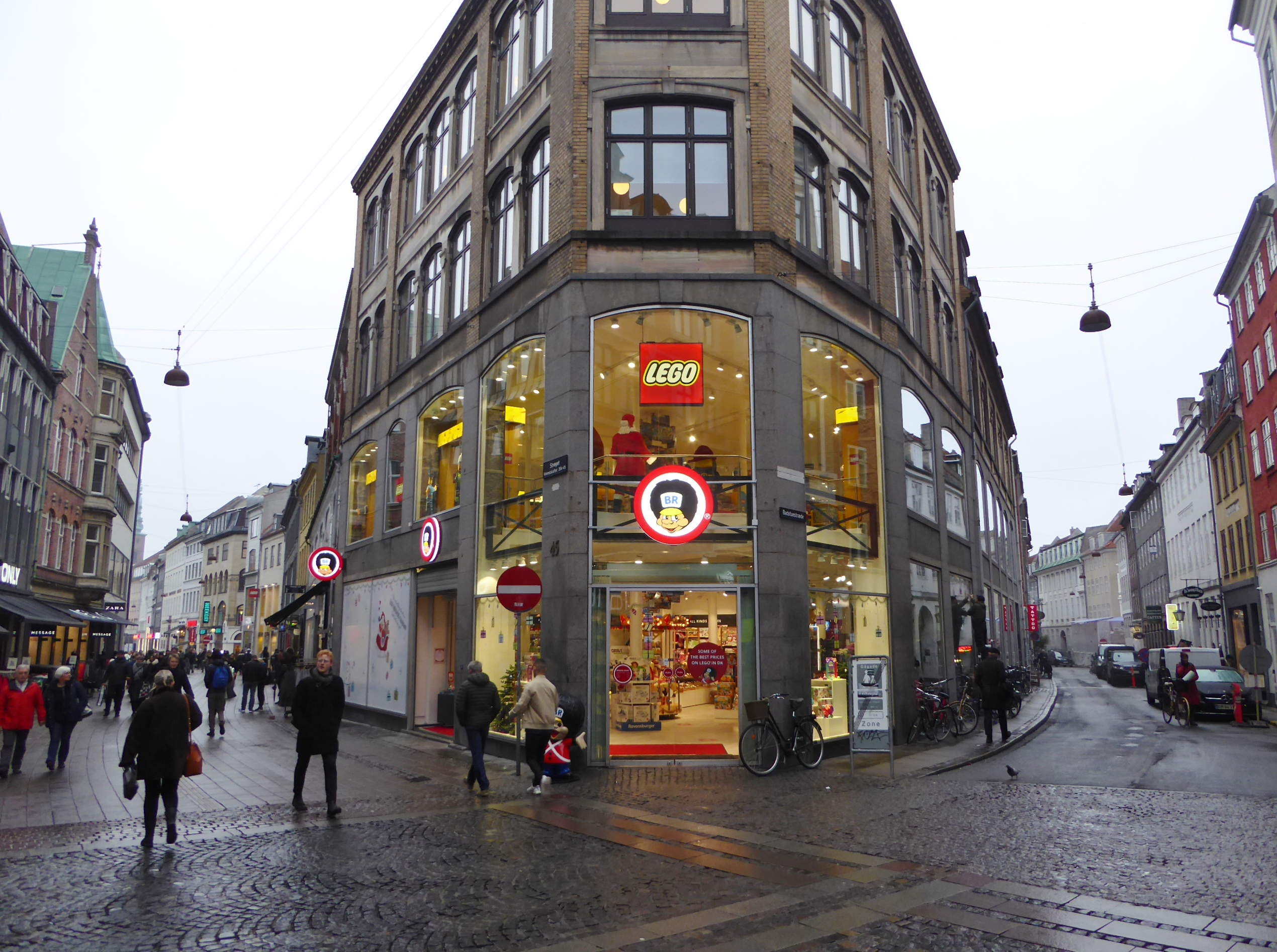 A branch of the toy shop BR Legetøj at the corner of Vimmelskaftet and Badstuestræde in Indre By in Copenhagen.